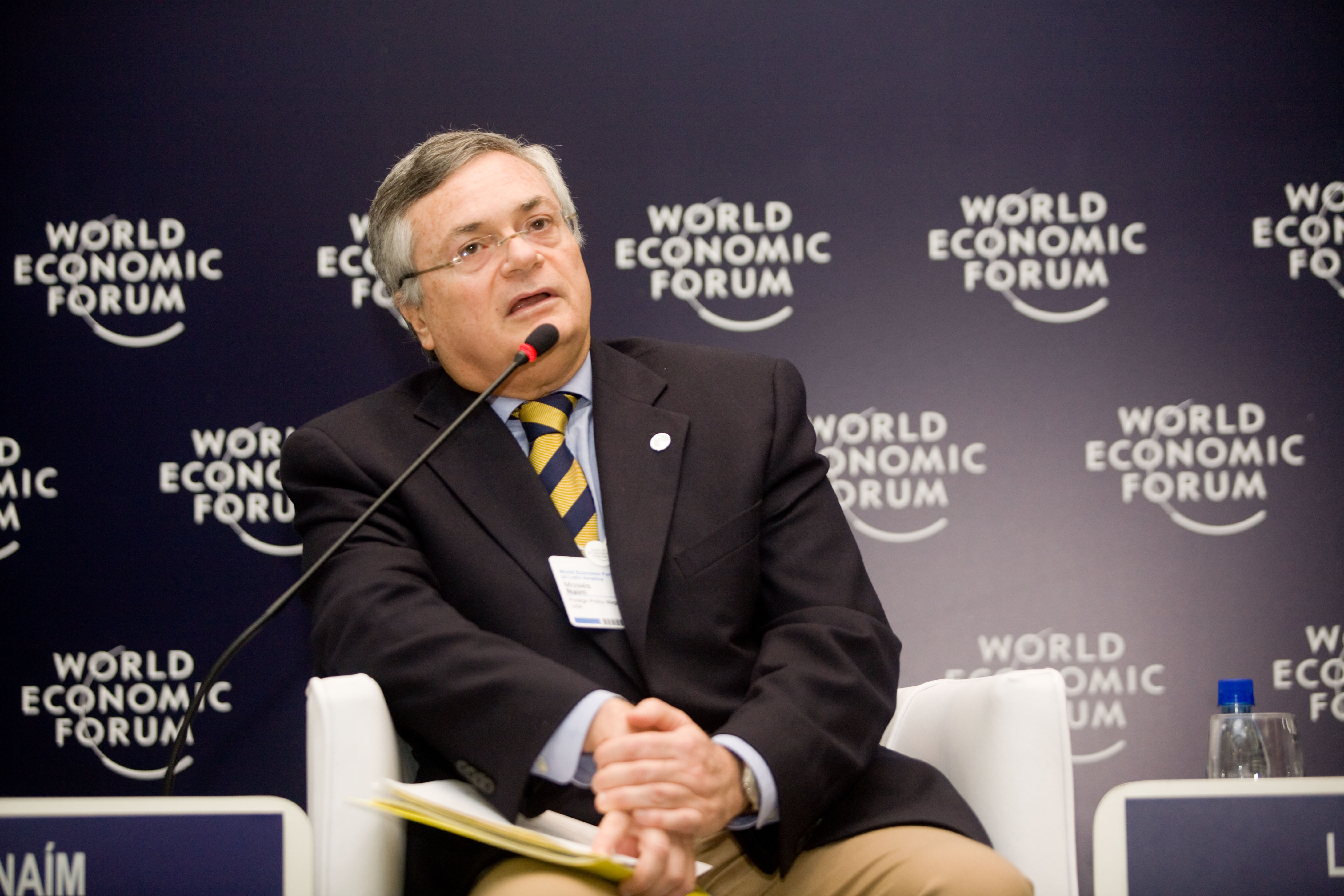 Moisés Naím, Venezuelan economist, speaking at the World Economic Forum on Latin America 2009 in Rio de Janeiro, Brazil.